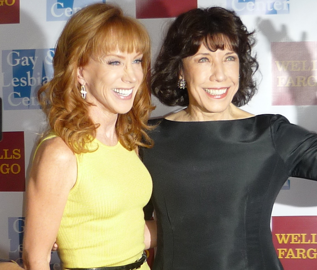 Kathy Griffin, Lily Tomlin